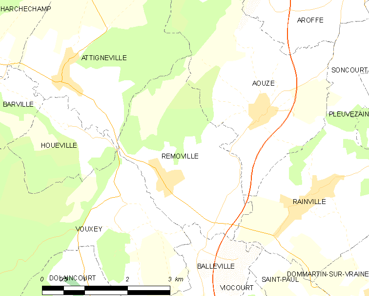 Map of French municipality Removille